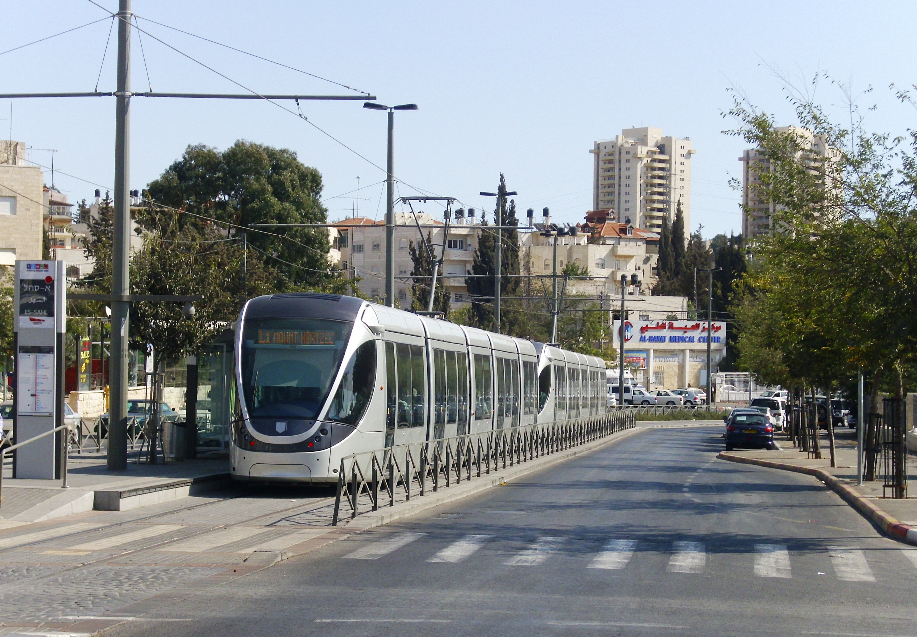 Light Rail train direction Mt. Herzl in Es-Sahl (Shuafat South)